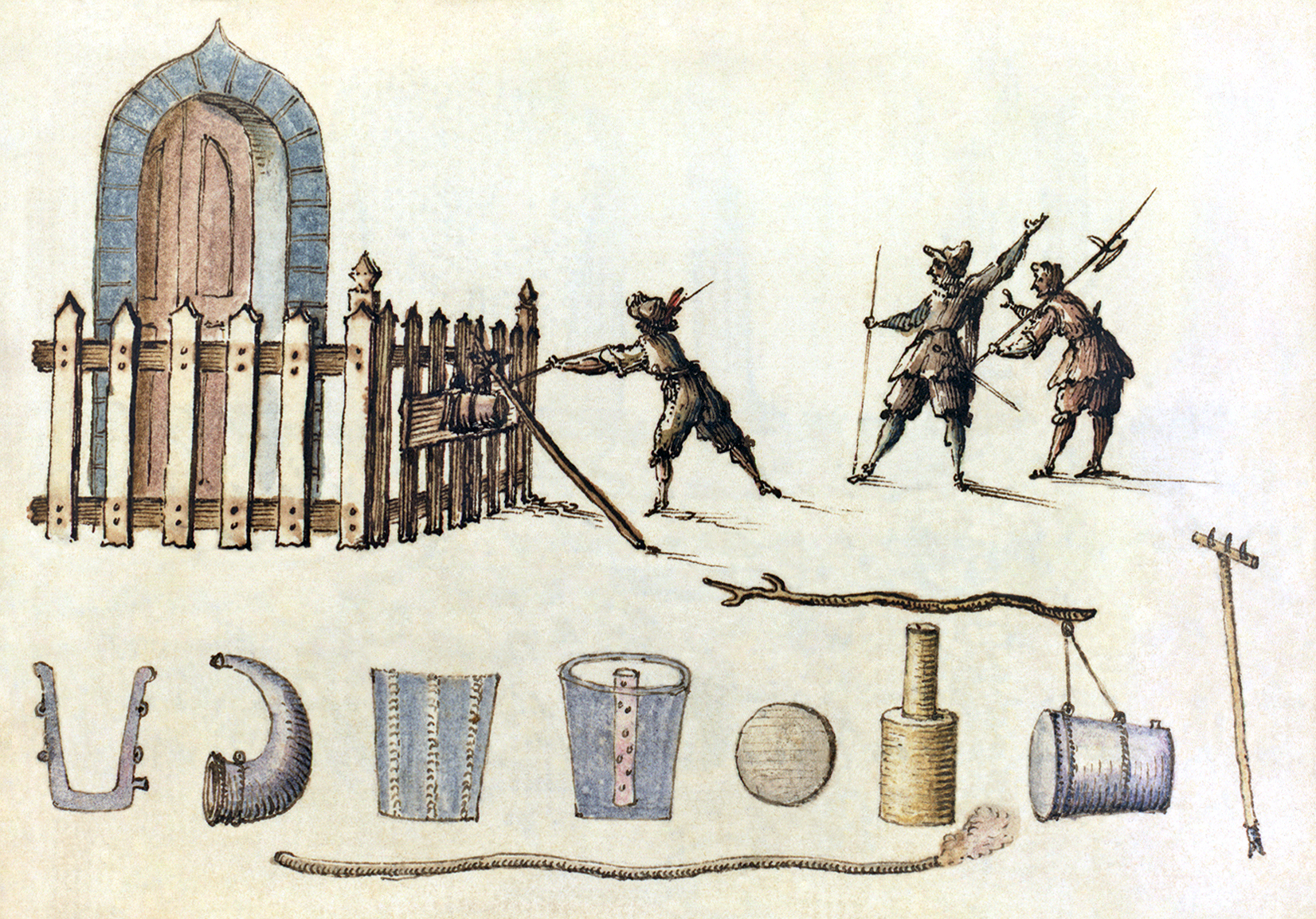 Illustration of a petard from "Sketchbook on military art, including geometry, fortifications, artillery, mechanics, and pyrotechnics"